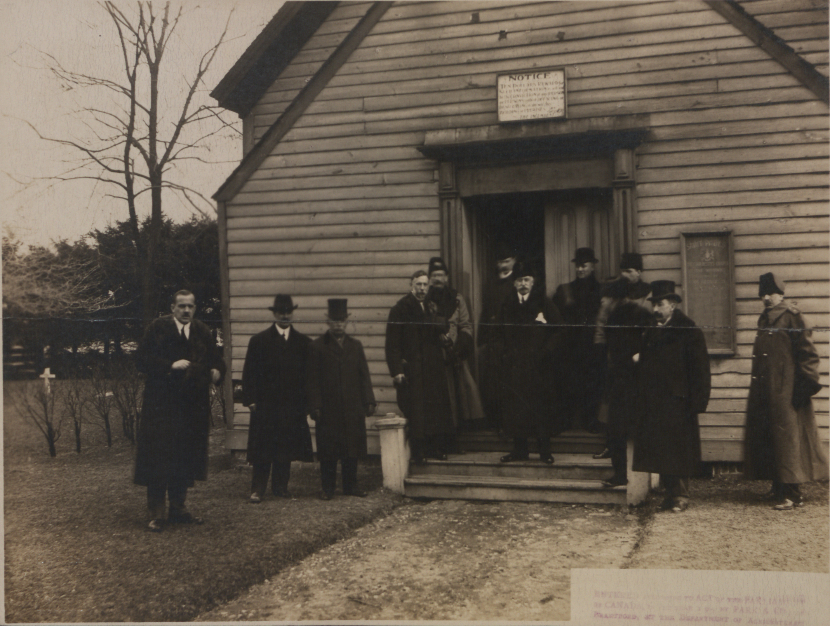 Original caption: “H.R.H. The Duke of Connaught at Mohawk Church, Brantford.”